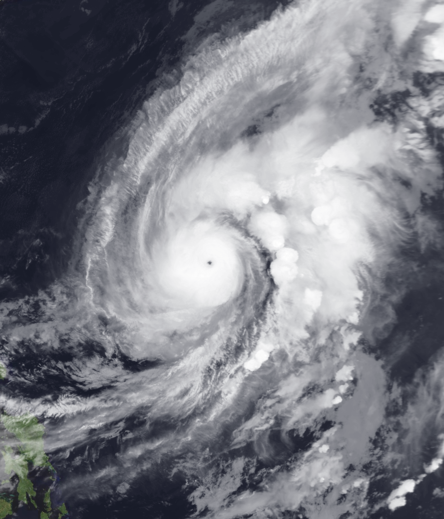 Typhoon Kujira as seen from TERRA infrared imager on May 4, 2009.